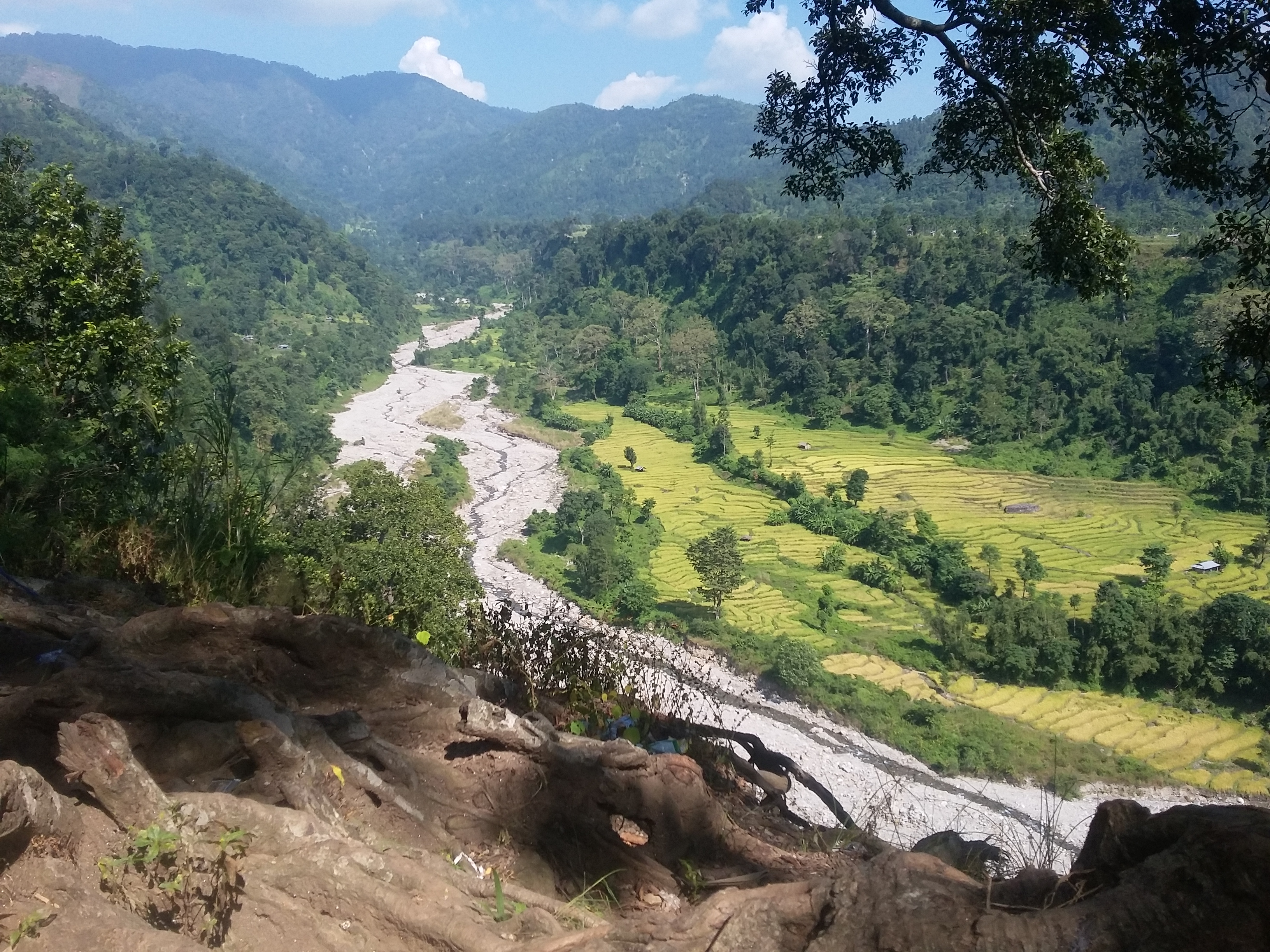 Image showing beautiful hill and river view captured from Sucide point,Jhapa,Nepal.